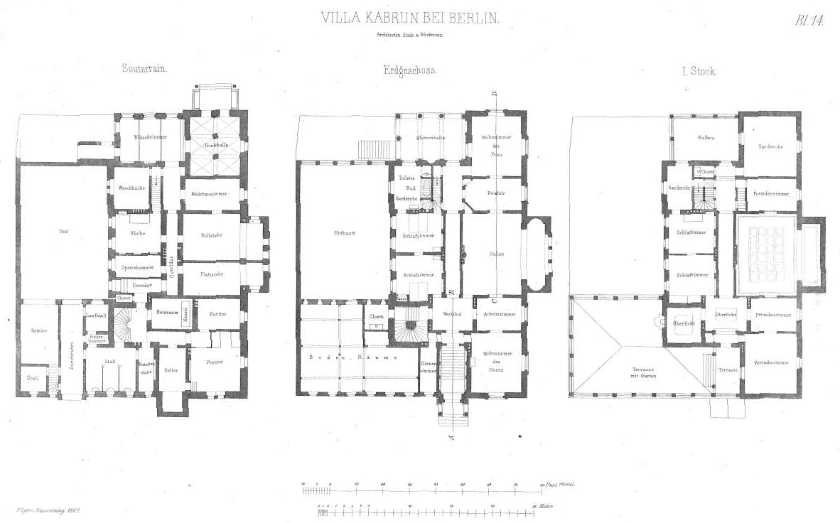 "Villa Kabrun" built in 1865-67 by architects Ende & Böckmann for one Herr Kabrun-Oberau in Berlin-Tiergarten, current address is Rauchstraße 17-18. This lithographic plate shows a floor plan of the "Souterrain" (raised basement), the "Erdgeschoß" (ground floor), and the "1. Stock" (1st floor).